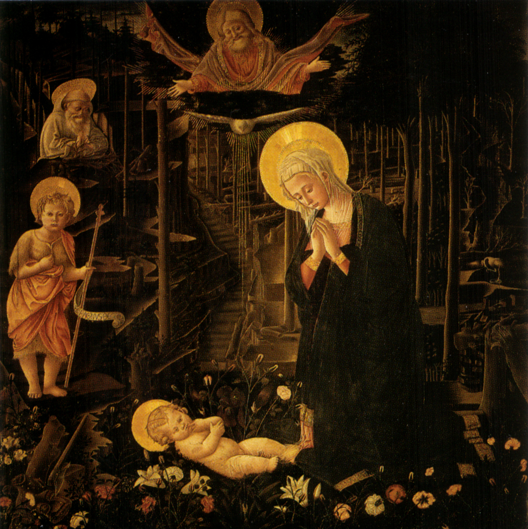 Copy of the Nativity from the Medici Chapel. The original by Fra Filippo Lippi is in the Uffizi Gallery. This copy is now in the chapel.